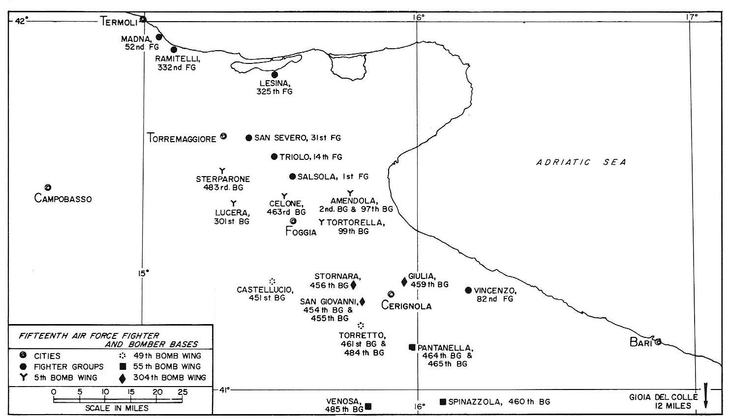 Map of 15th Air Force airfields around Foggia, Italy